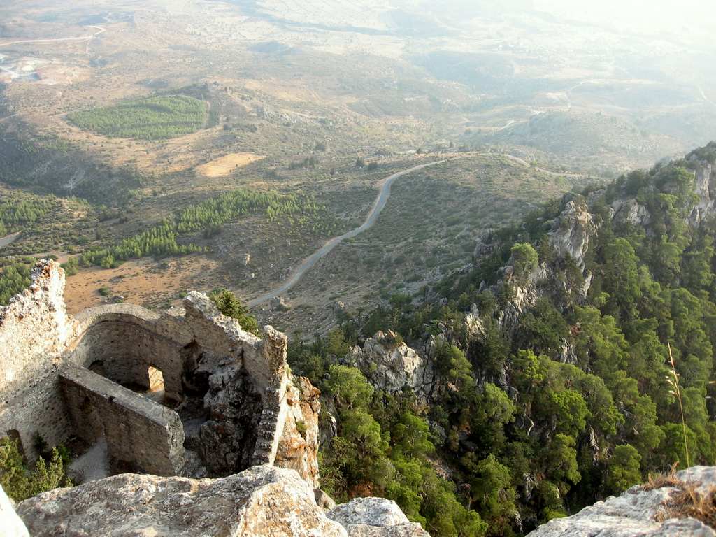 Buffavento Castle is located in northern Cyprus.